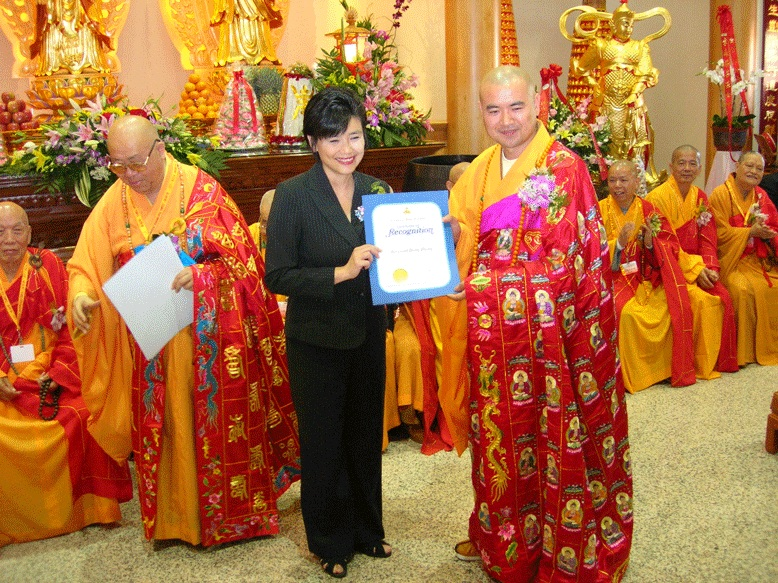 House Rep. Judy Chu (middle), then-Assemblywoman for the 49th District, presenting a certificate of recognition to the Venerable Hong Zheng at the Dharma Seal Temple in Rosemead, California.